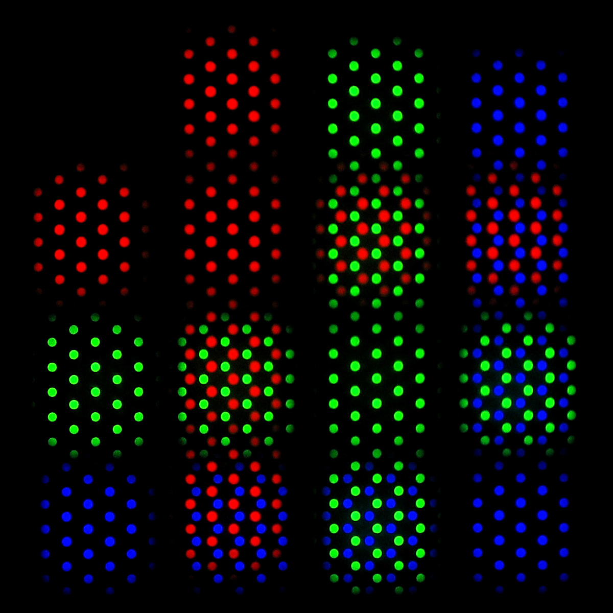 The shadow mask of a 15" CRT monitor (diagonal dot pitch: 0.28 mm) in close-up, showing a RGBxRGB matrix. Each color square is 6x6 pixels big. When displayed on the same monitor set to its optimum resolution (1024x768 pixels), the photo has a magnification of about 40x. Easily distinguishable is the way the additive color model RGB works and its colors Red, Green and Blue. Photo taken with a Canon Powershot A95 camera and some additional equipment (a Pentax K mount 50 mm f:1.7 lens and a simple convex lens taken off a magnifying glass) to achieve the magnification.